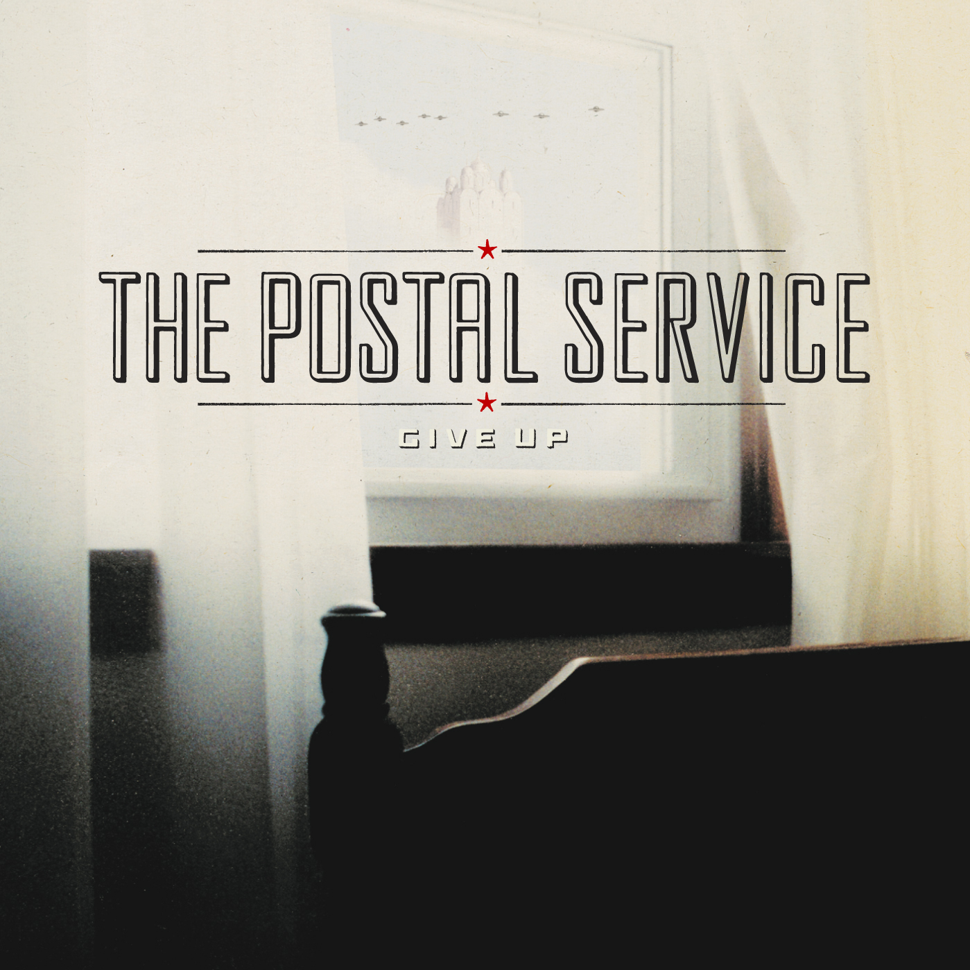 Album cover of "Give up" from musical group "The Postal Service"